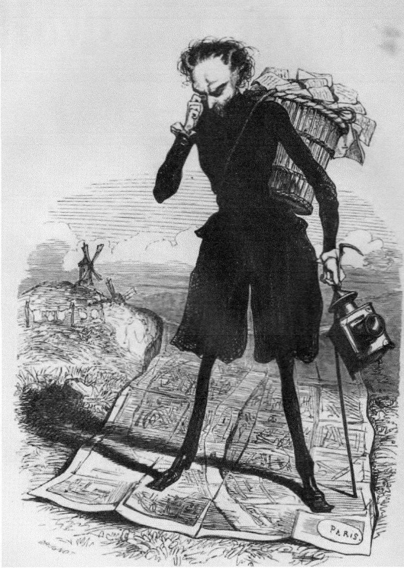 Fronstispice from a book called Le Diable à Paris published by Hetzel 1845